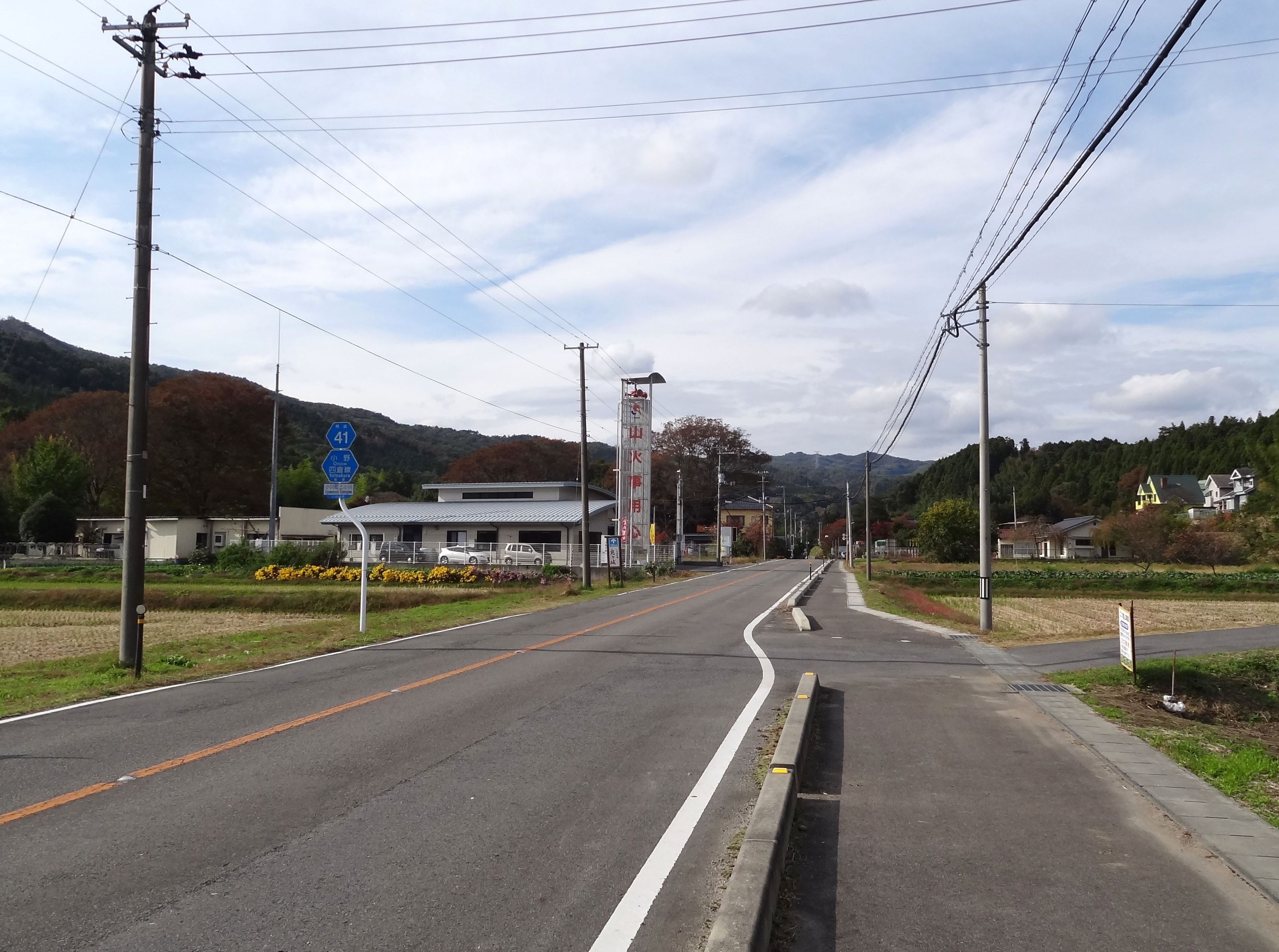 The Fukushima Prefectural Road Route 41 in Ogawamachi Kamiogawa, Iwaki City